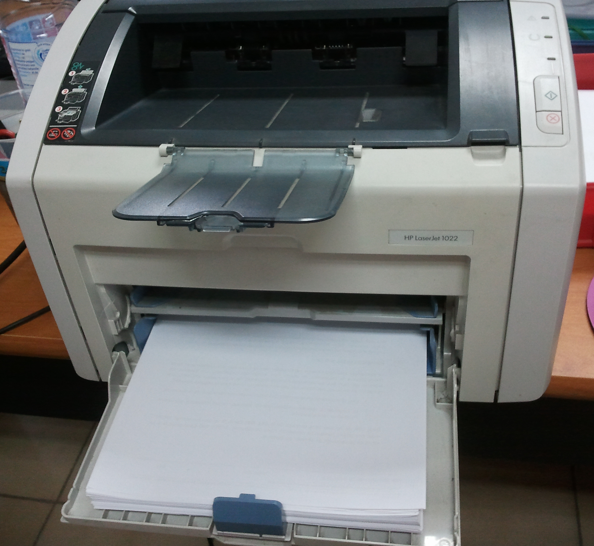 HP Laserjet 1022 printer